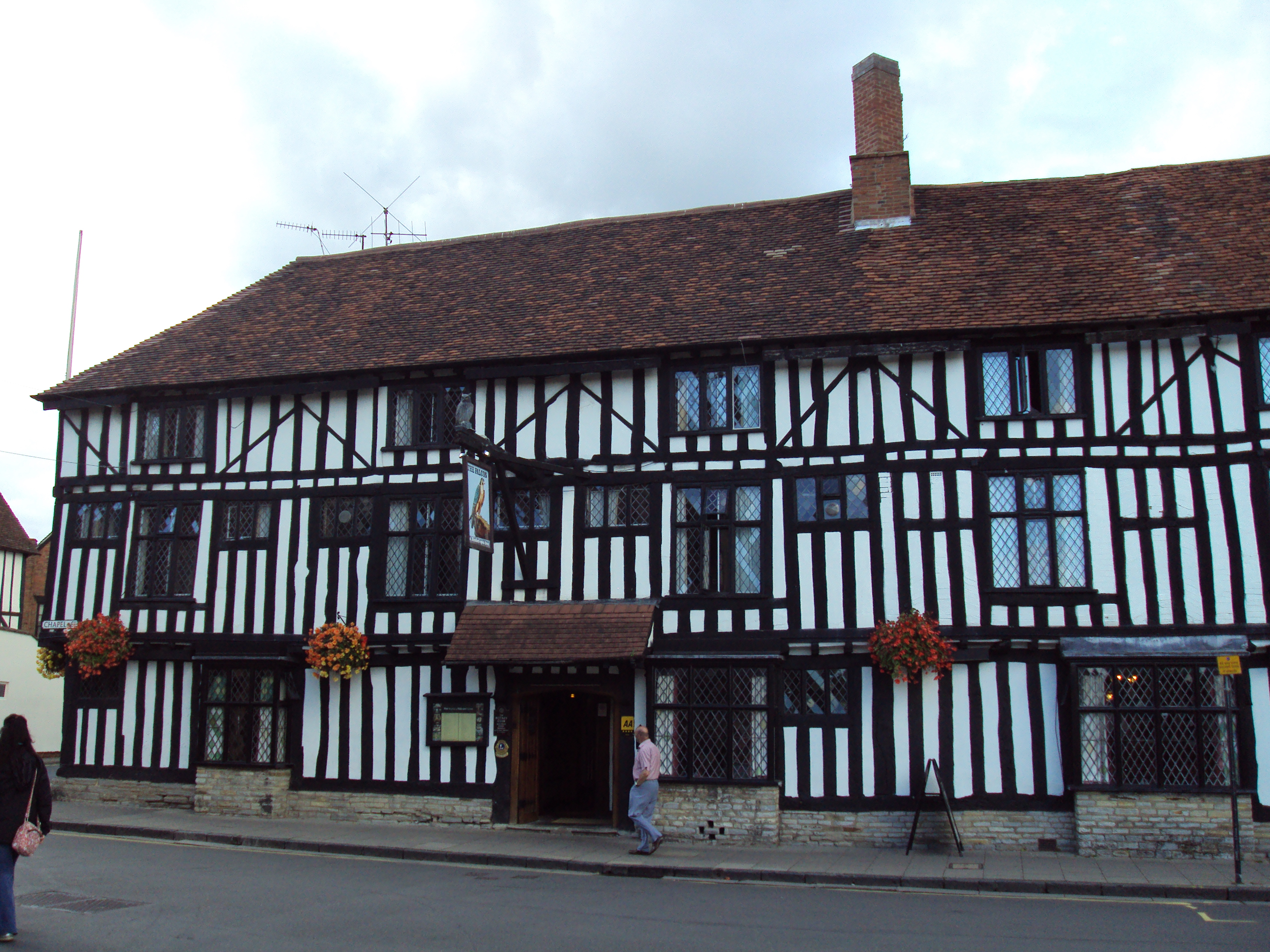 The Falcon Hotel, Stratford-upon-Avon, England.